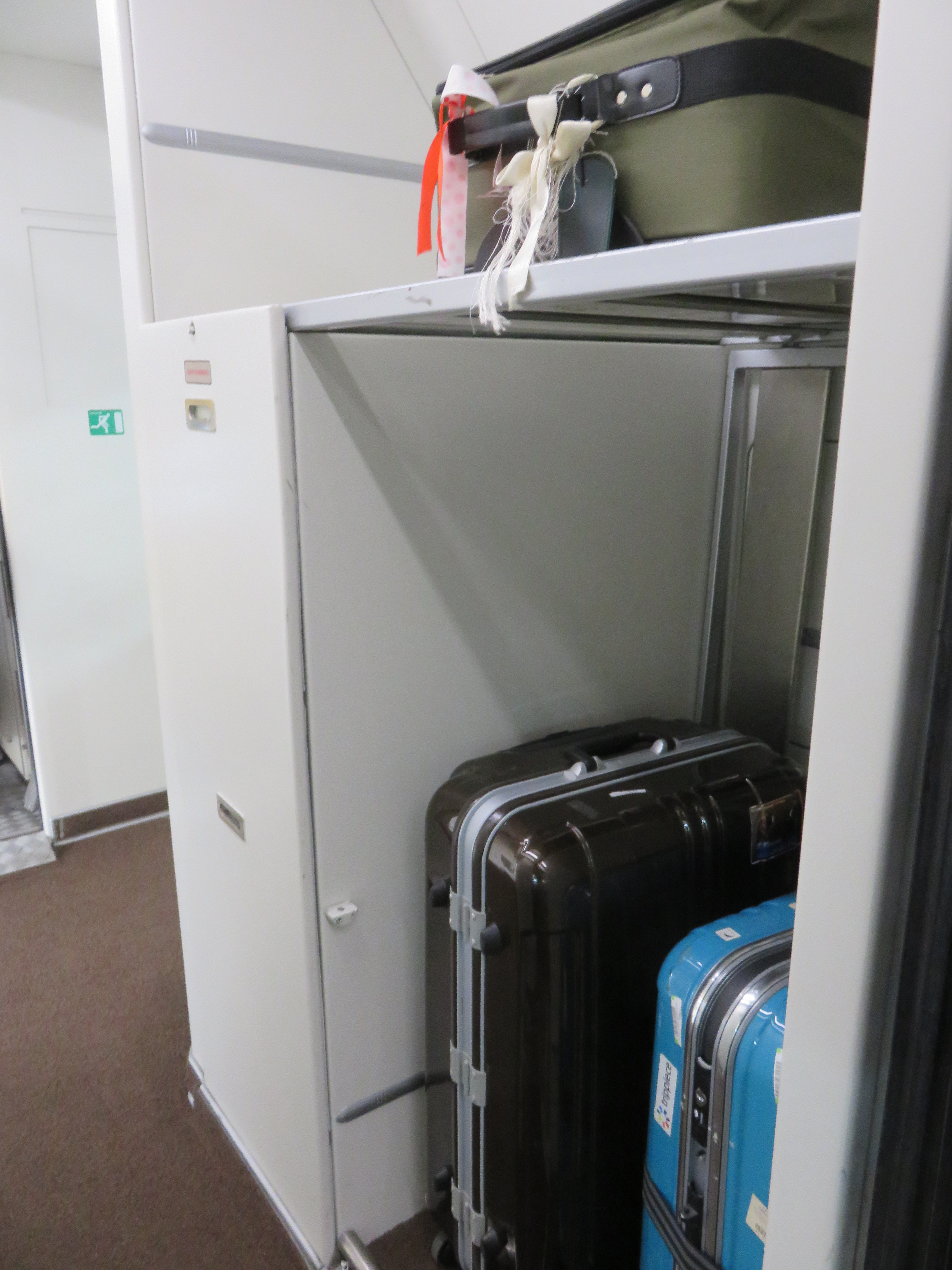 ETR 500 Frecciarossa's luggage space